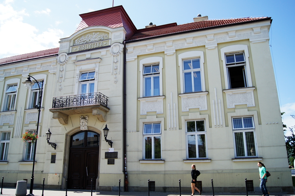 Main Library in Rzeszów